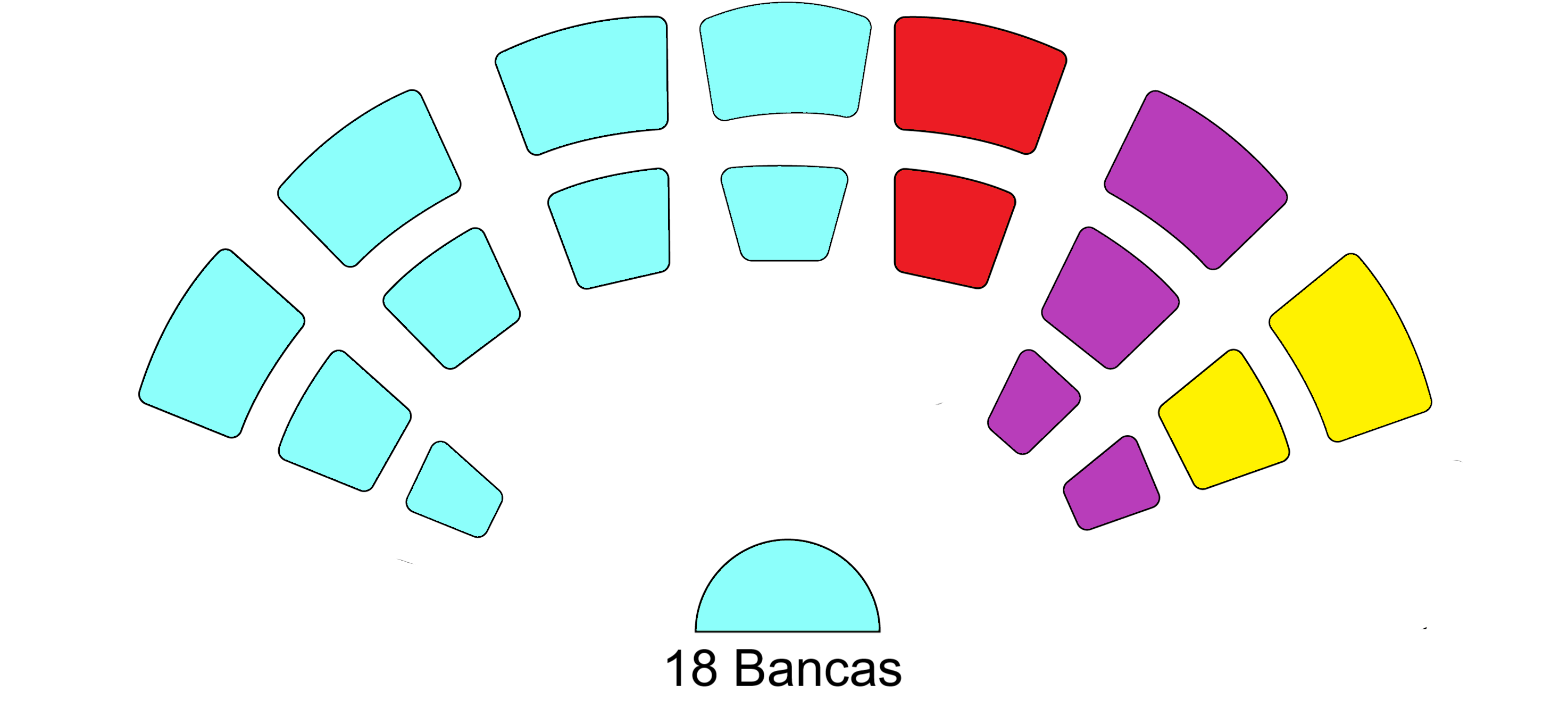 Deliberative Council of the municipality of Ensenada